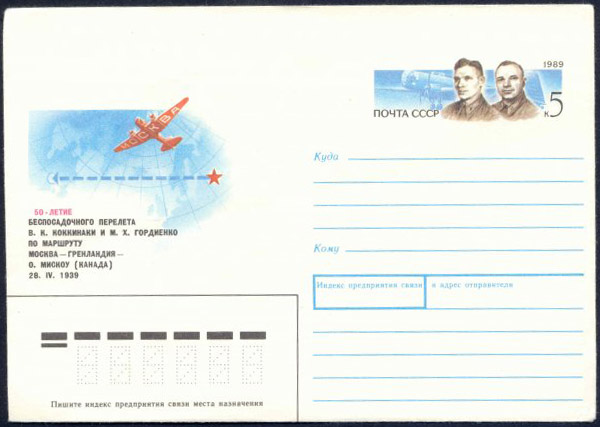 Soviet envelope for the 50th Anniversaire of the Moscow North AMerica flight.